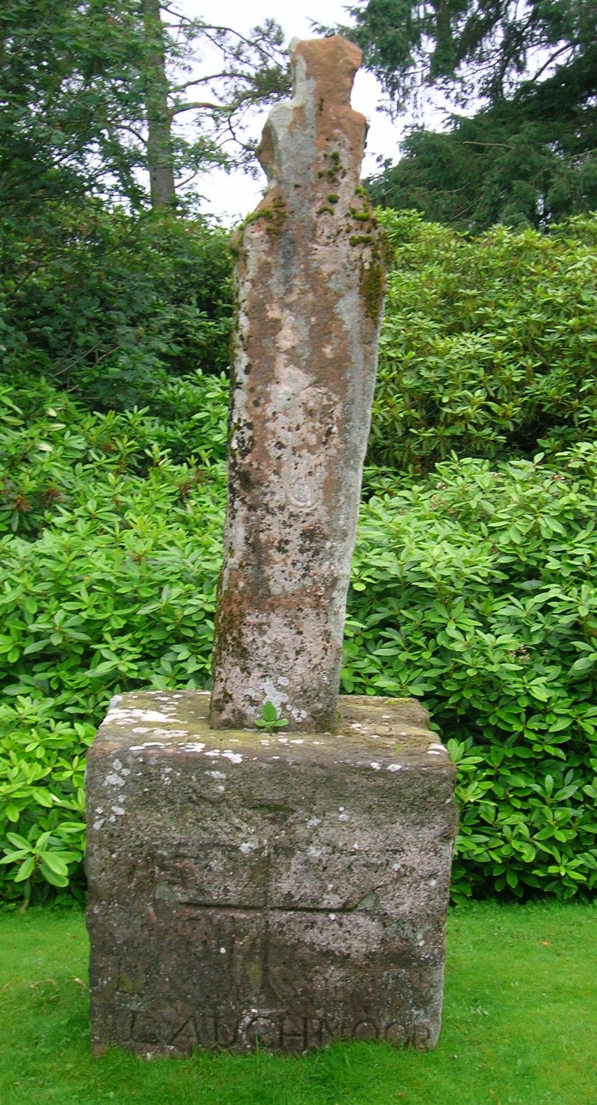 The Laugh Moor Burial stone at Friars' Carse, Auldgirth, Dumfries, Scotland. Possibly from Castle Morton.